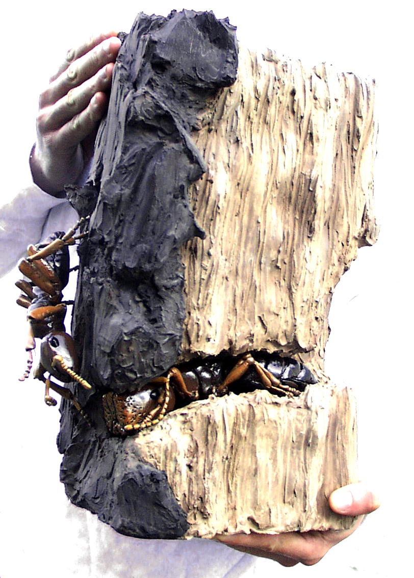 This is a model of the ant "Camponotus truncatus" in its natural habitat - the wood on a tree.